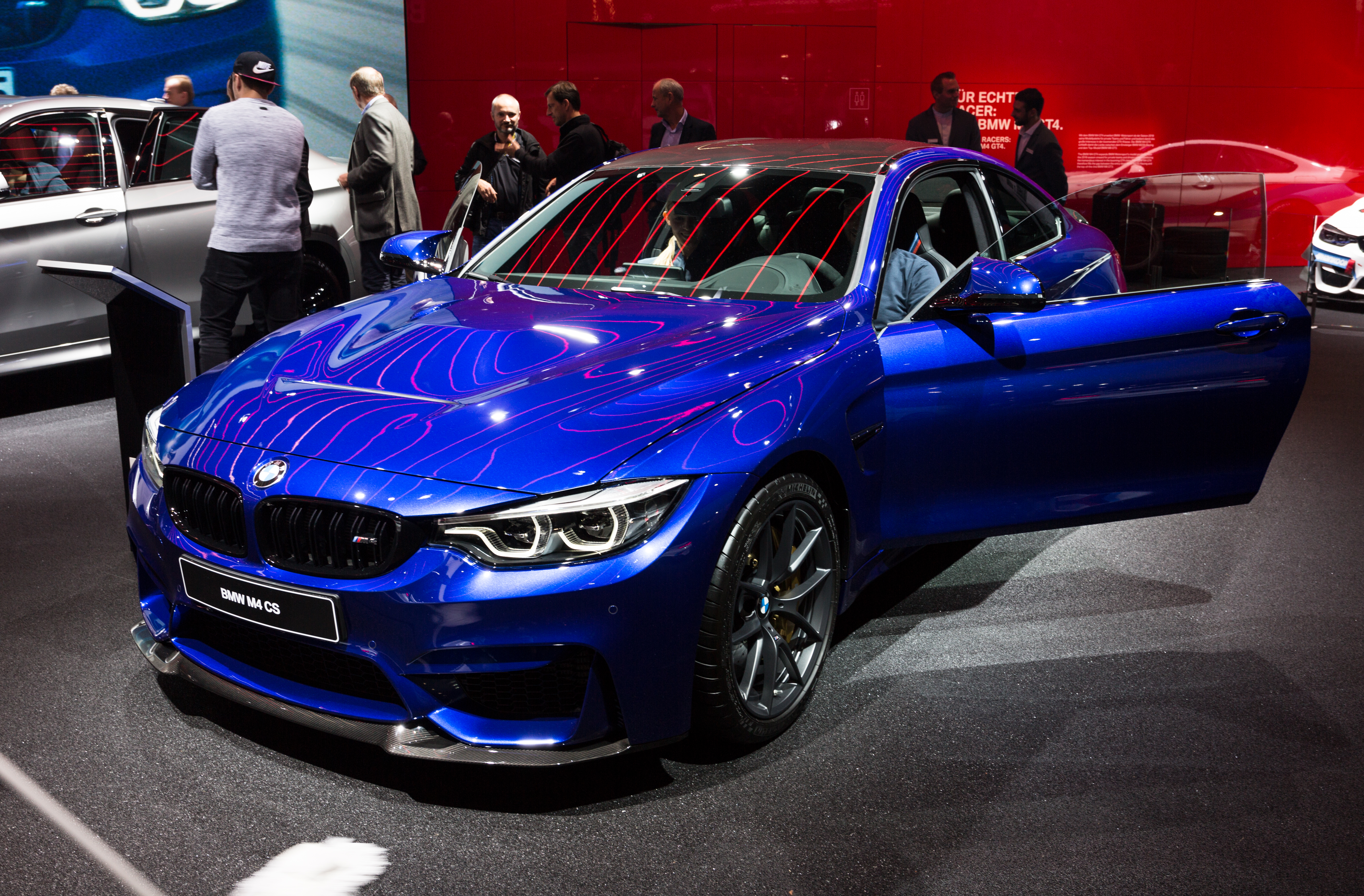 BMW M4 CS